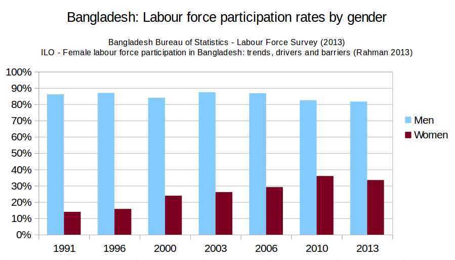 Sources: Bangladesh Bureau of Statistics - Labour Force Survey (2013) ILO - Female labour force participation in Bangladesh: trends, drivers and barriers (Rahman 2013)